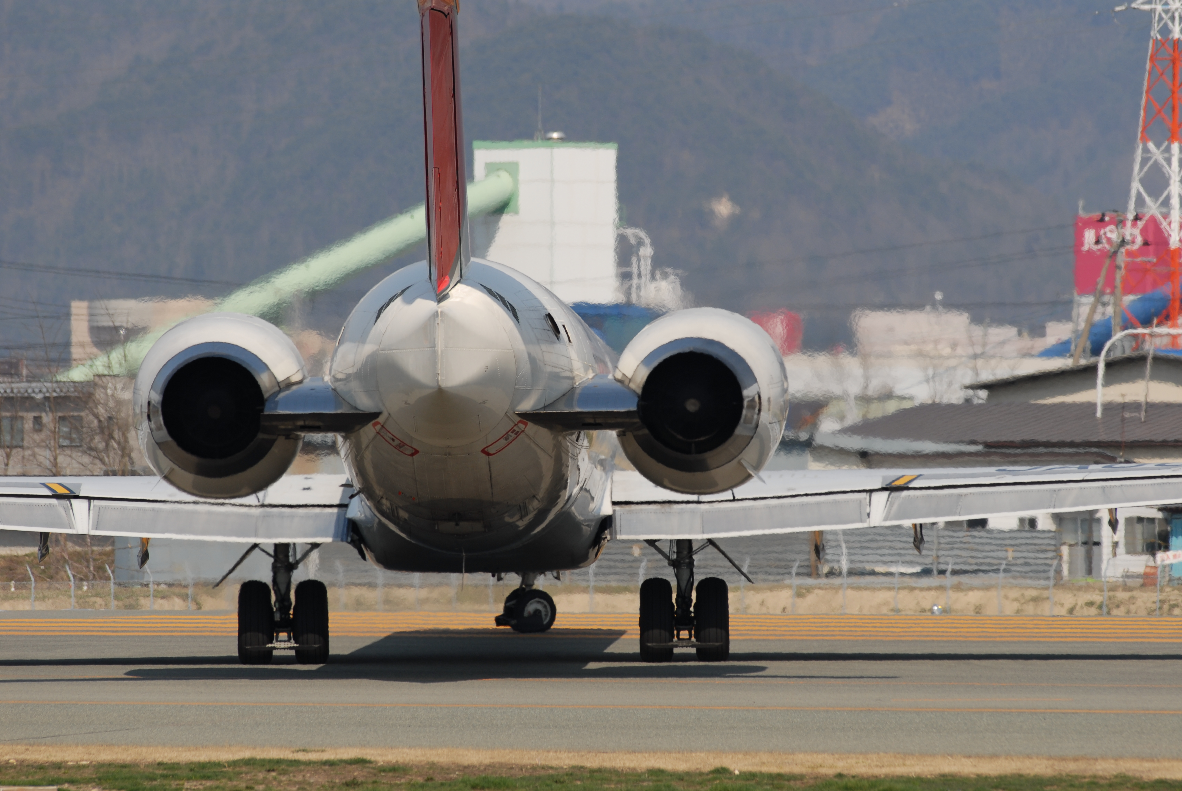 Japan Air Lines MD-90-30 (JA002D/53556/2207)